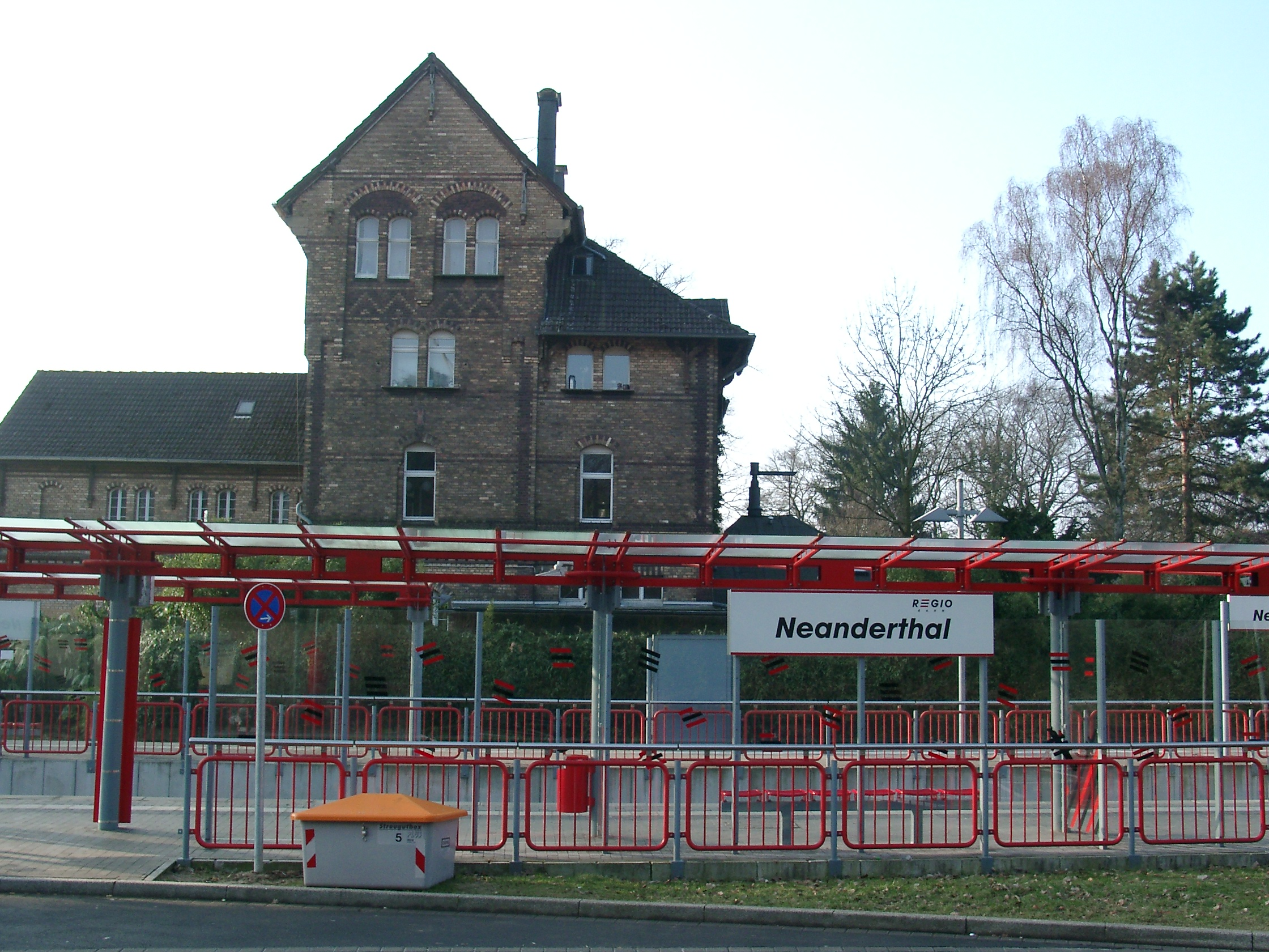 Neanderthal train station of the Mettmann - Düsseldorf - Kaarst RegioBahn.